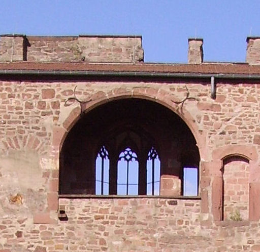 part of Heidelberg castle (Heidelberger Schloss)